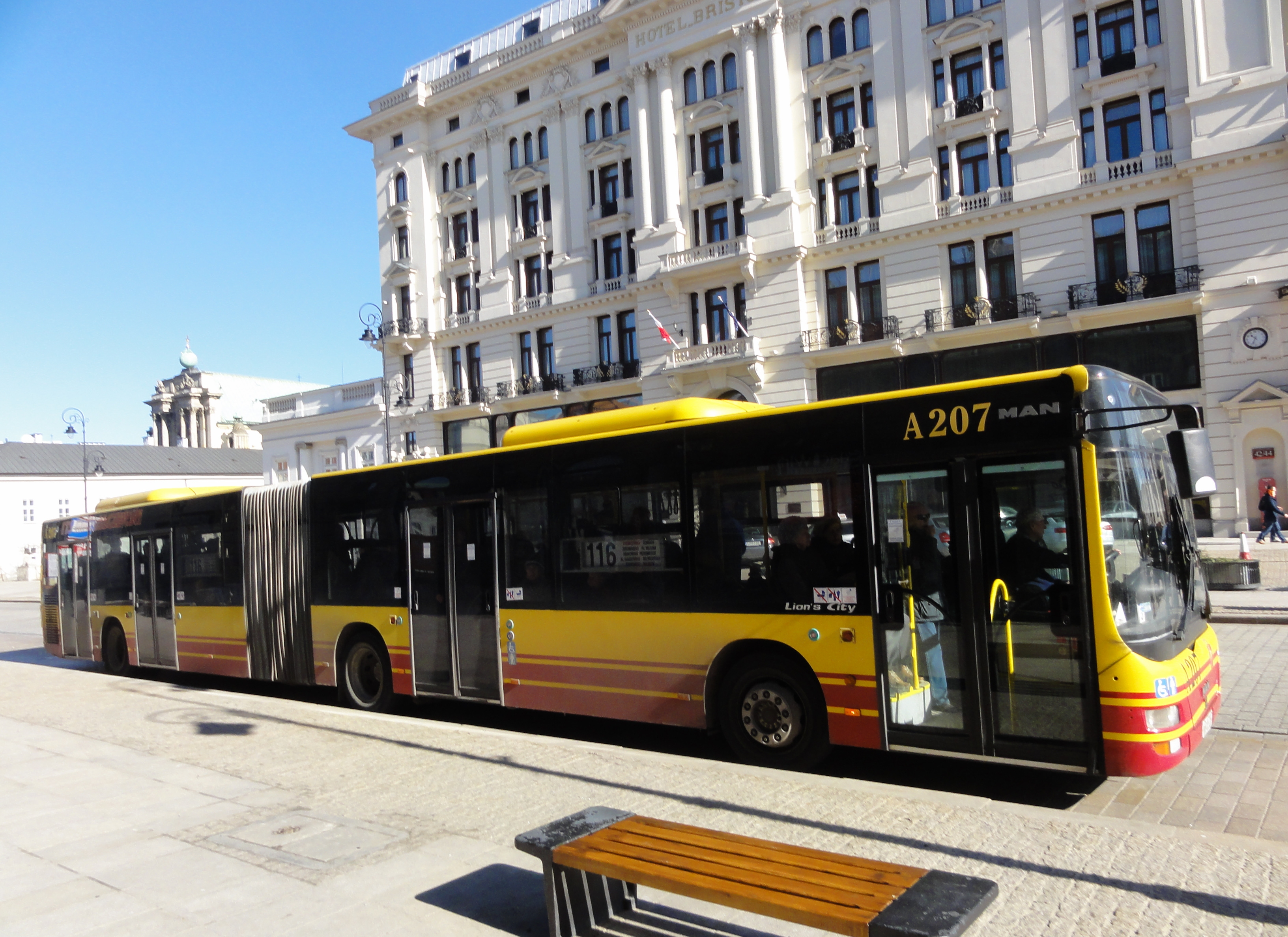 MAN bus in Warsaw